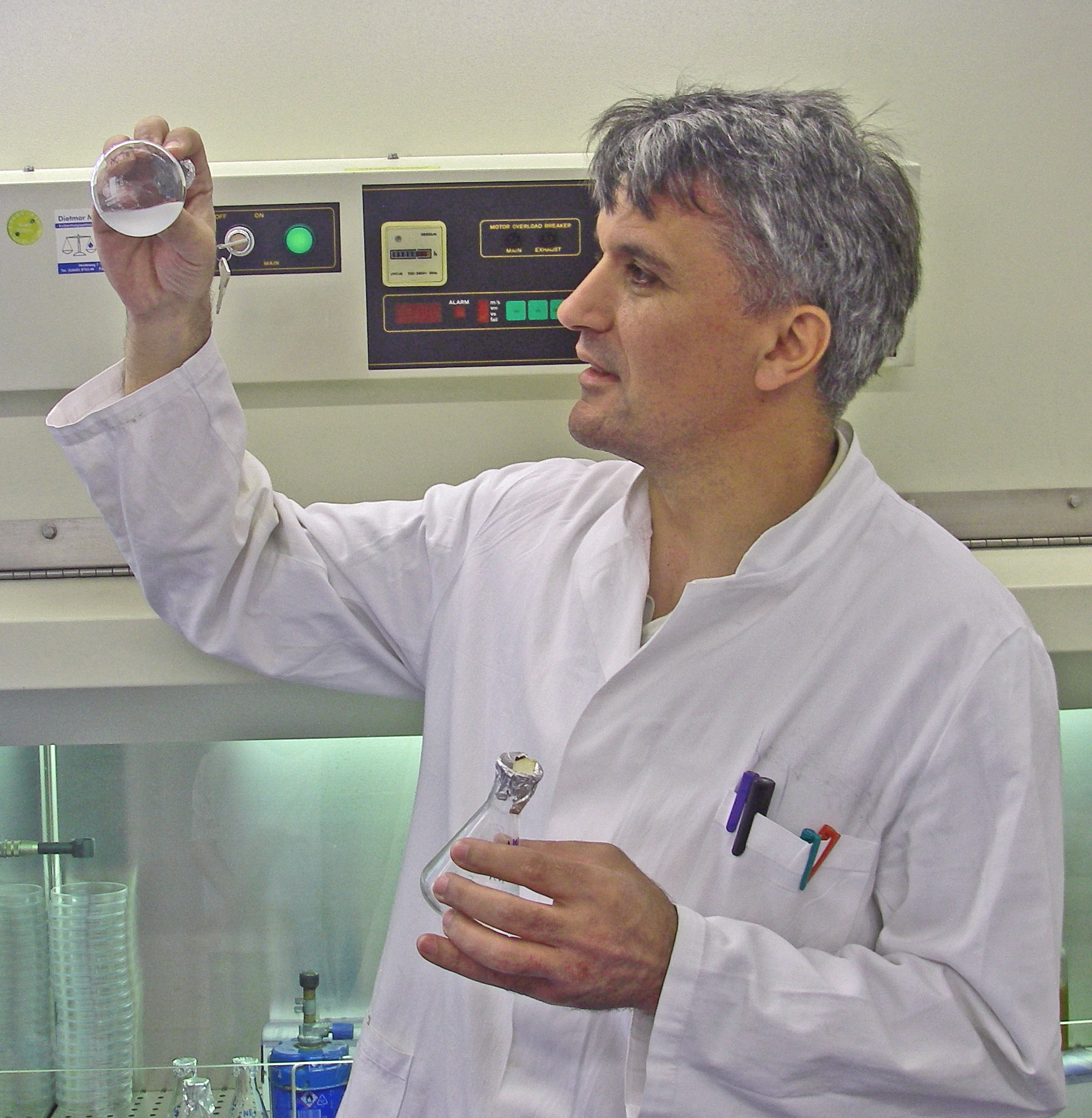 Photo taken in a TUB Laboratory during experiments